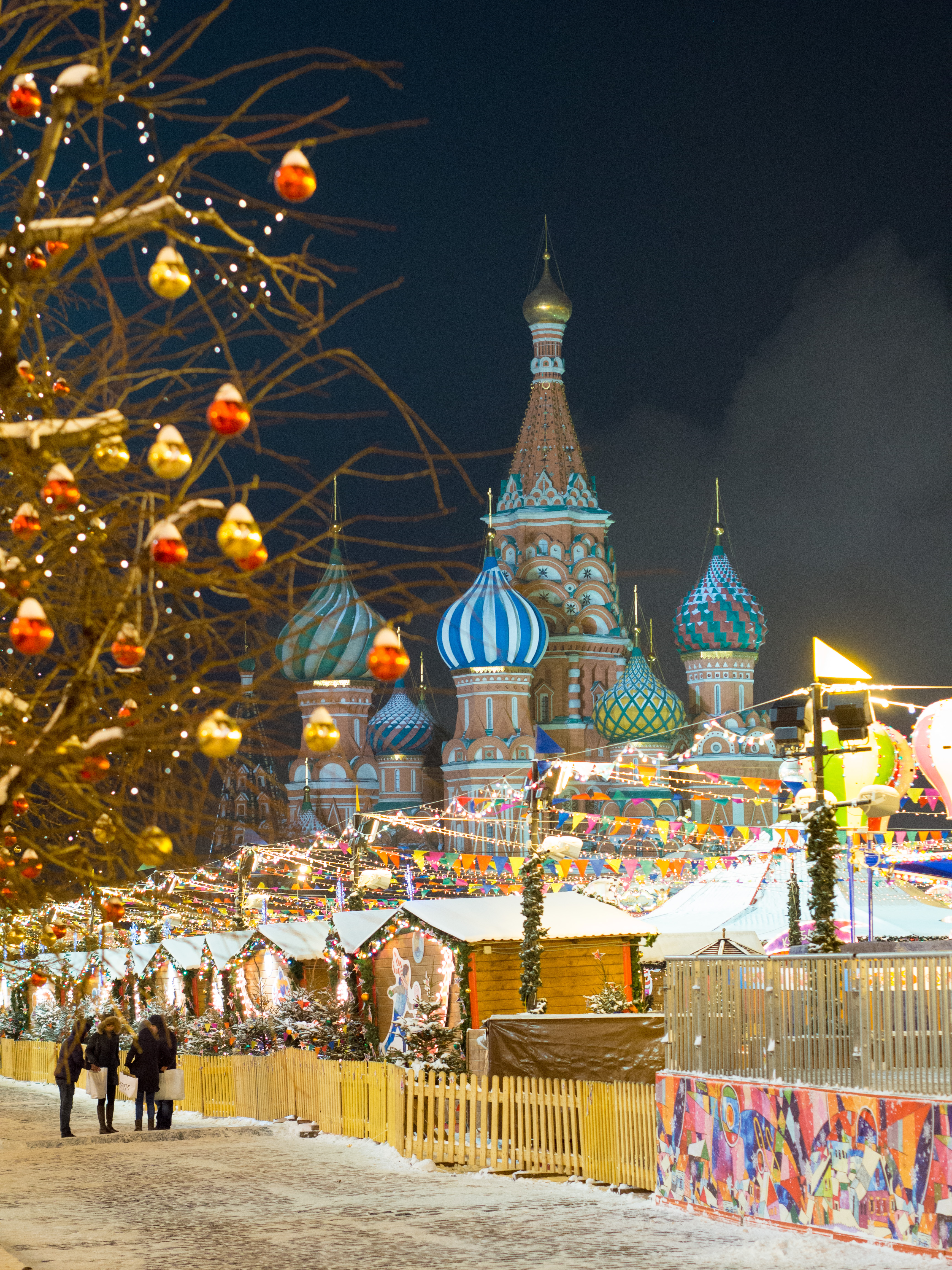 27 degrees at Kitai-Gorod, Moscow, Moscow Federal City